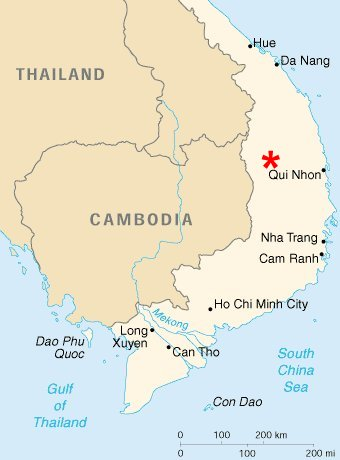 Location of Pleiku Air Base. Created from map of southern (south) vietnam generated from wikipedia commons map of southeast asia